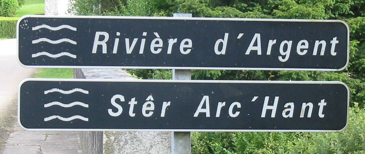 Bilingual sign of river, Huelgoat, Brittany